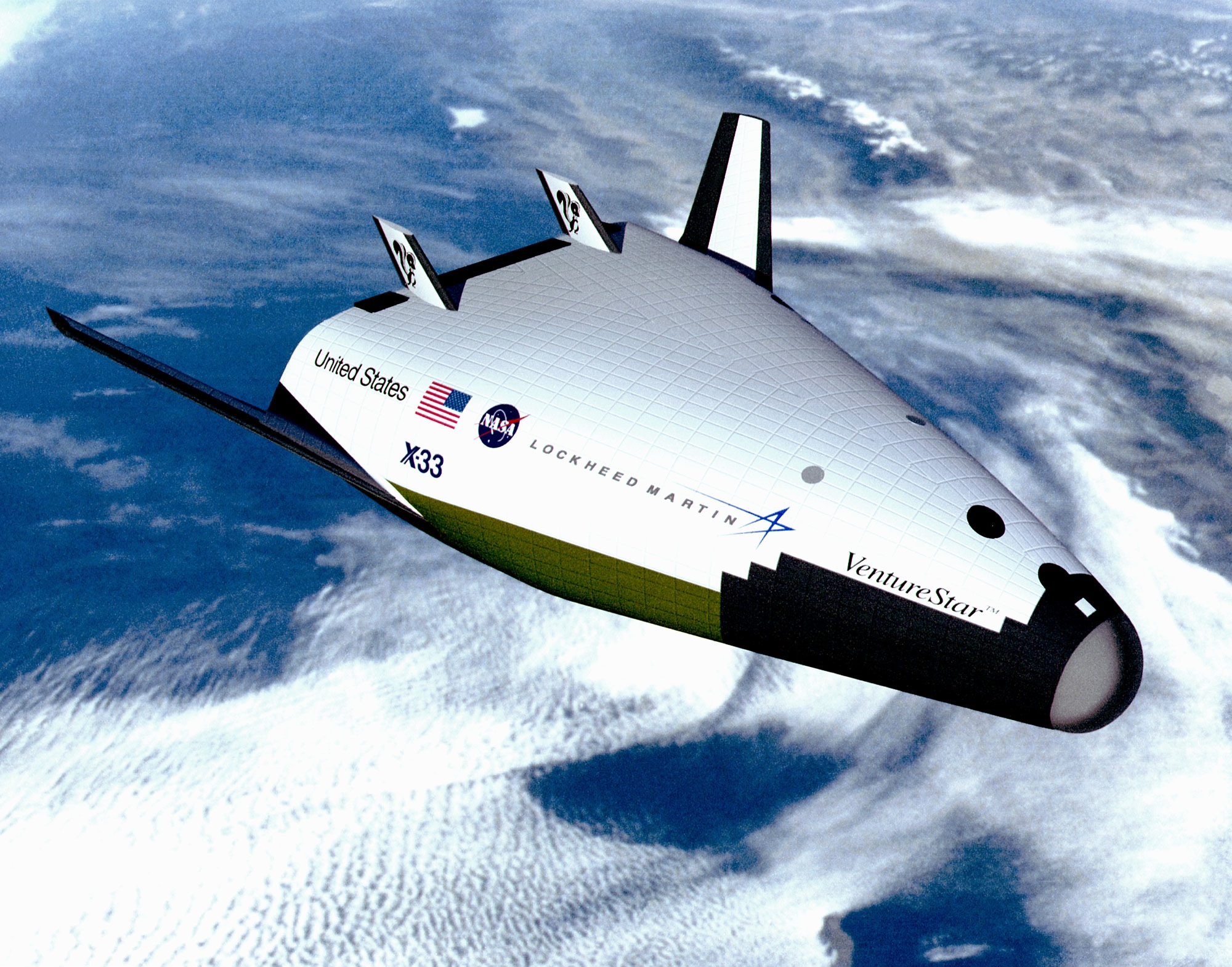 This is an artist's conception of the NASA/Lockheed Martin Single-Stage-To-Orbit (SSTO) Reusable Launch Vehicle (RLV) in orbit high above the Earth. The X-33 was intended to be a technology demonstrator vehicle for such a possible RLV. The RLV technology program was a cooperative agreement between NASA and industry. The goal of the RLV technology program was to enable significant reductions in the cost of access to space, and to promote the creation and delivery of new space services and other activities that would improve U.S. economic competitiveness.